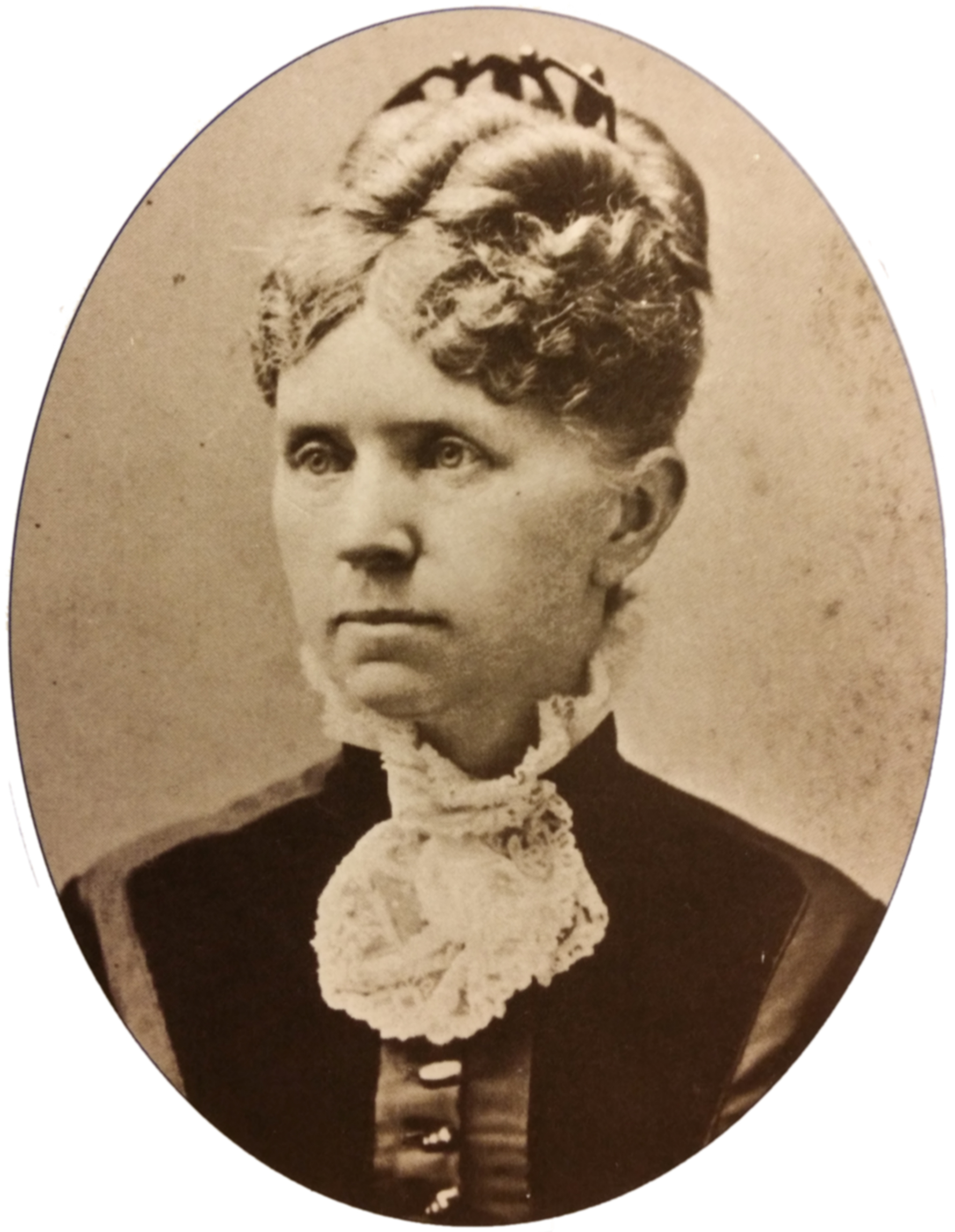 Frances Fuller Victor, historian of Oregon and the American west